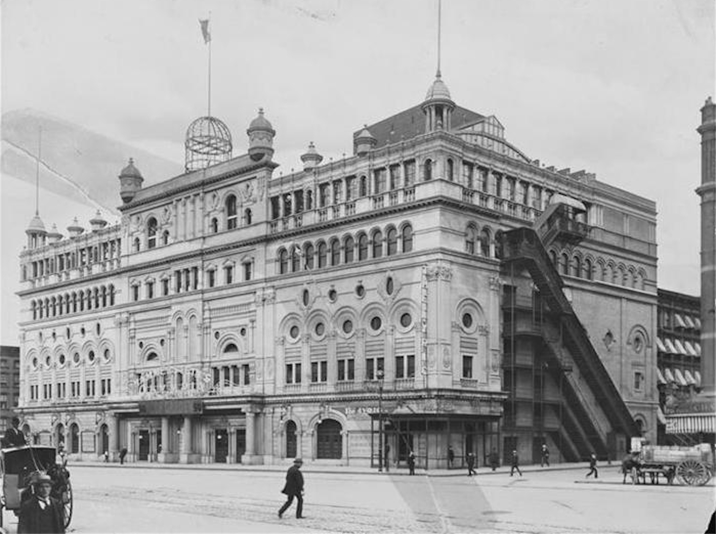 East side of Longacre Square (today called Times Square), at 44th Street, with Hammerstein's Olympia entertainment complex occupying the blockfront from 44th to 45th Streets.